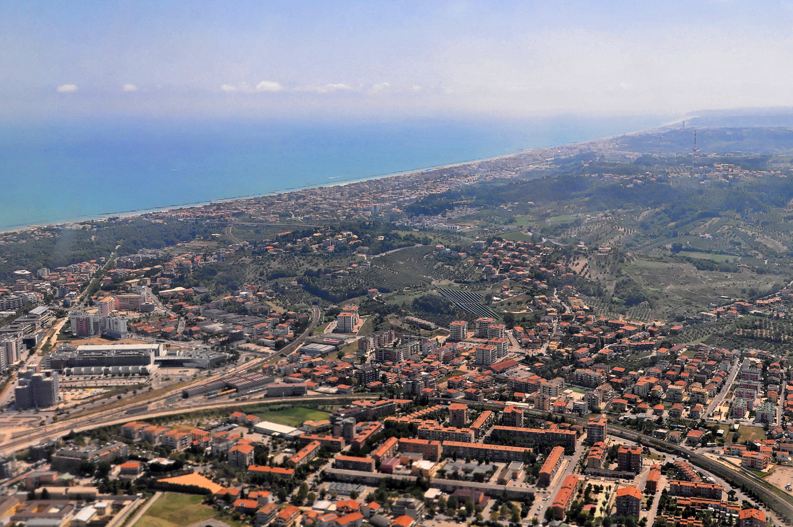 Fly Pescara London Wikimania 2014